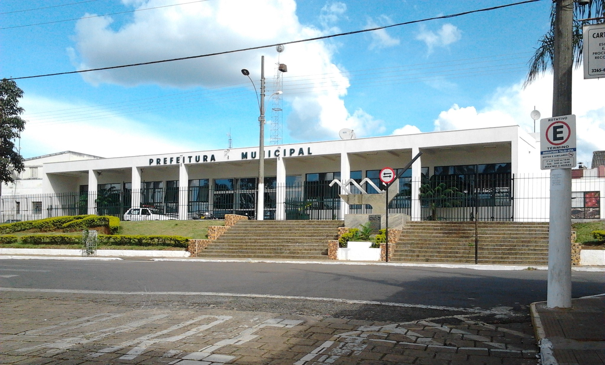 Três Pontas Town Hall